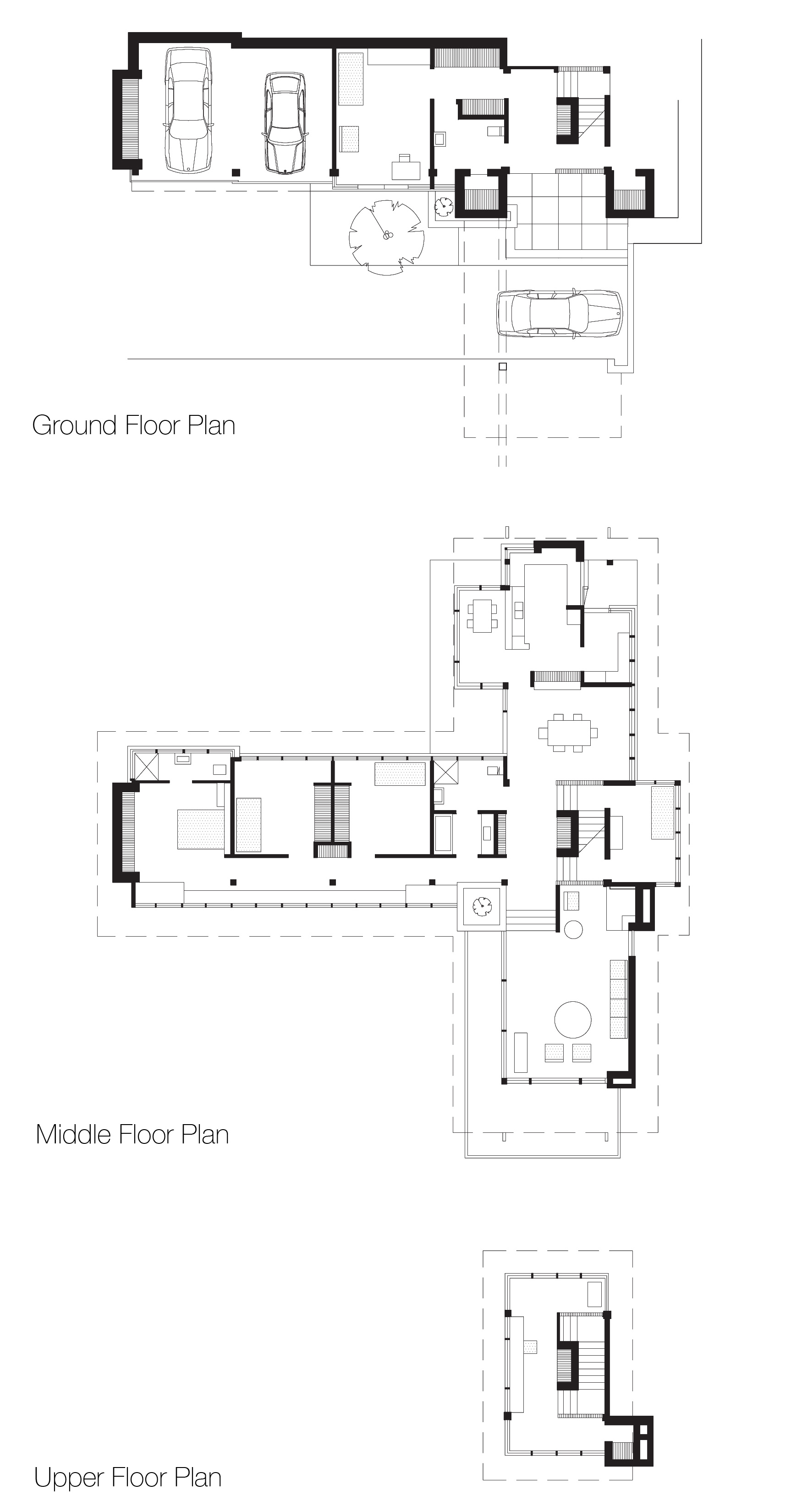 Drawing based on original hand drawn plans by Chancellor and Patrick.